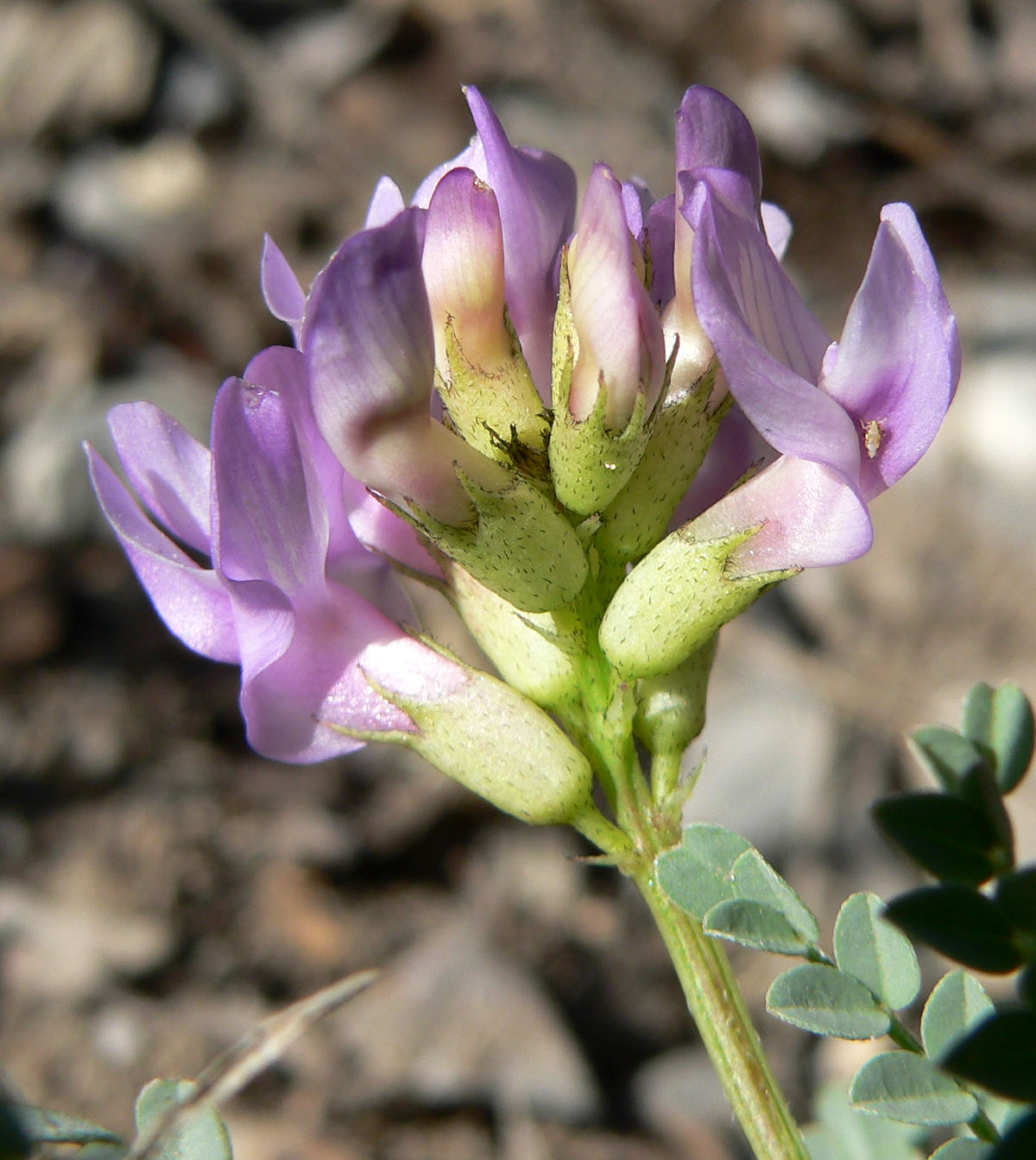 Astragalus beckwithii var. purpureus just south of the wash at the junction of 157 and 158 in Kyle Canyon, Spring Mountains, southern Nevada (elev. about 2100 m)